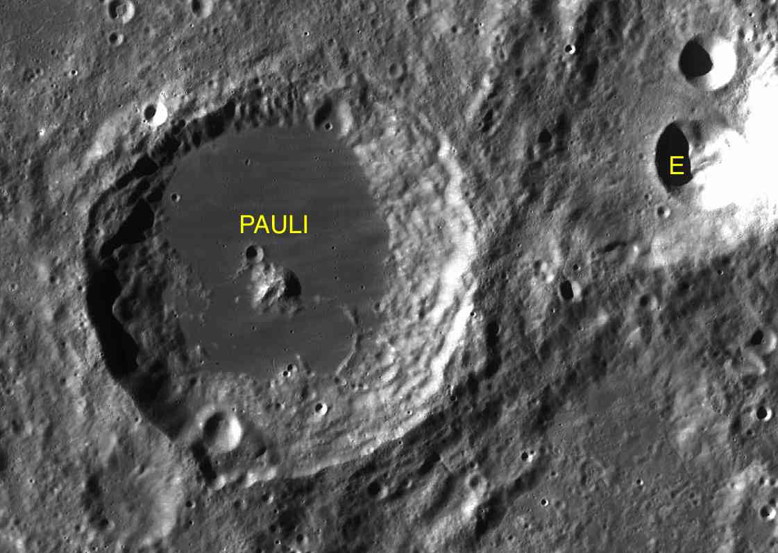 Part of the chart LAC-118 used for the presentation